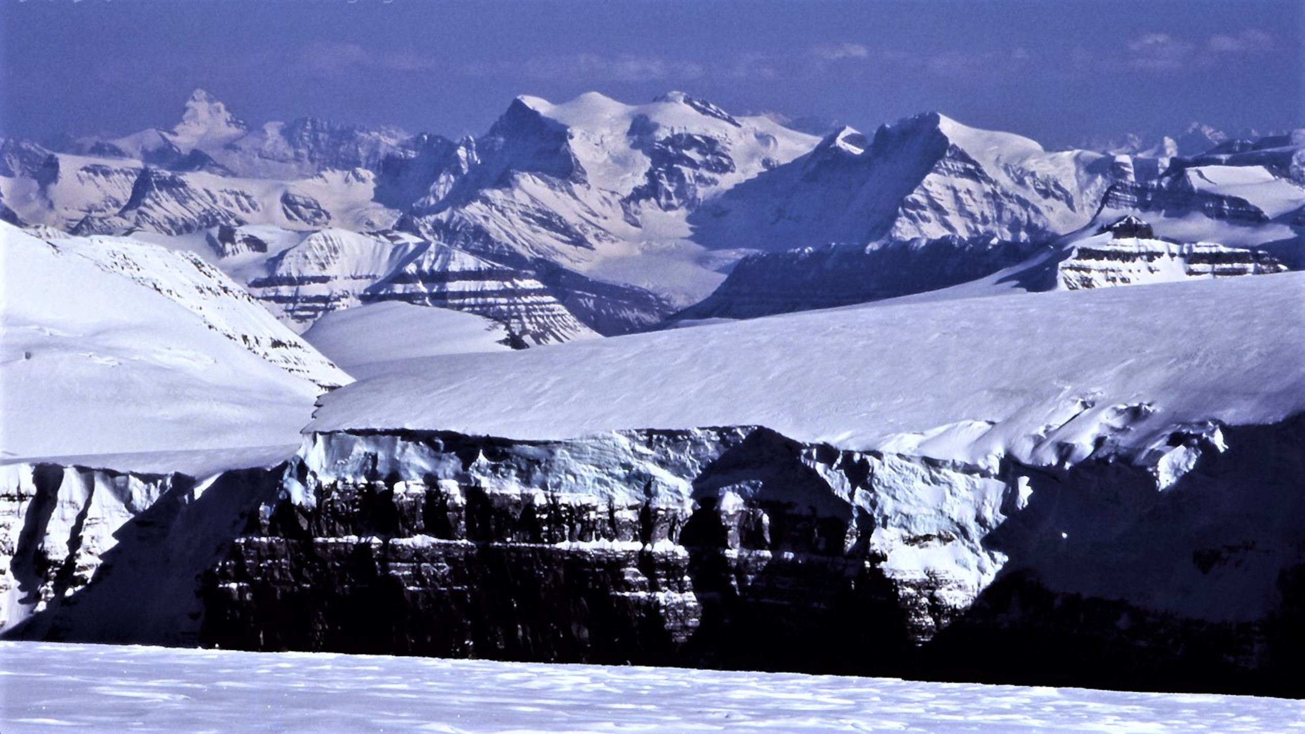 Snow Dome (foreground), Mt. Forbes (49 km (30 mi) away), the Lyells (L1, L2, & L3), Farbus Mtn., Oppy Mtn., Castleguard Mtn. and more, as seen from the summit of Mt. Kitchener on the edge of the W:Columbia Icefield... a myriad of Canadian Rocky Mountains, on a May long weekend. The amount of snow you see here in late May is mainly due to the elevation and glaciation in the area - it's not likely snowy on the roads or in the valleys at this time of year in the Rockies. The Great Divide runs through three of the Lyells (L5, L4 & L3) and then along Oppy and Farbus Mountains, so part of the image is in W:Alberta and part in B.C., as well as part in Jasper Park (the foreground) and much in Banff, with some out of any park. Incidentally, Mt. Forbes is the highest peak totally within Banff Park, while Snow Dome is the hydrographic apex of Canada, with water running into three oceans. This photograph is cropped 16:9 and is WQHD (2560x1440 px resolution), so you can download it for use as Apple wallpaper / Windows background or for most TVs, if you wish.